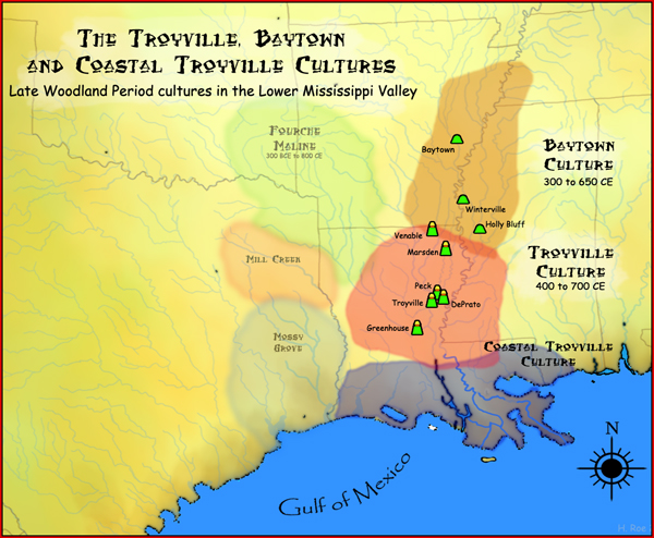 A map showing the geographical extent of the Troyville, Coastal Troyville and Baytown cultures during the Late Woodland period in the Southern United States, and some of its important sites.